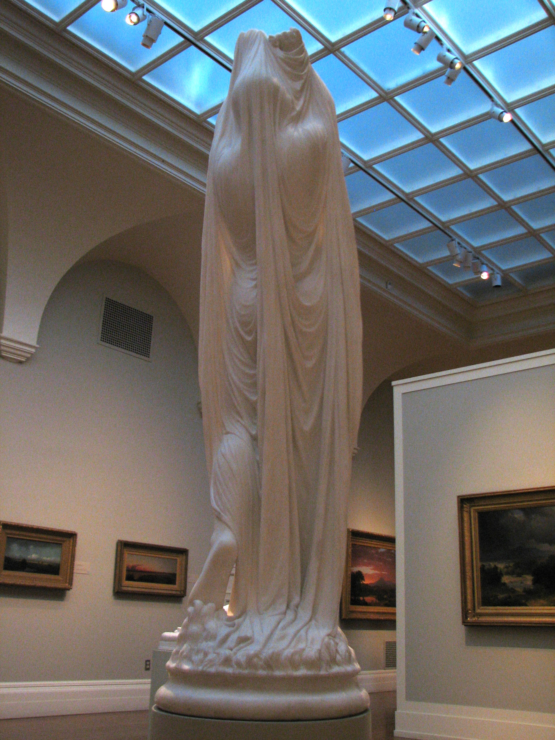 Undine Rising from the Waters, ca. 1880–1892, by Chauncey Bradley Ives (1810–1894), in the Yale University Art Gallery. See also Image:Undine_Rising_from_the_Waters,_front.JPG.